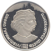 2 hryvnia (Ukraine) commemorating the Georgian poet David Guramishvili